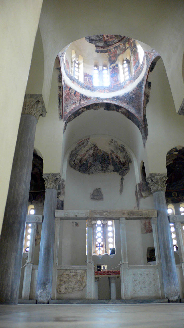 Byzantine church of the Agii Apostoli in the ancient agora of Athens.